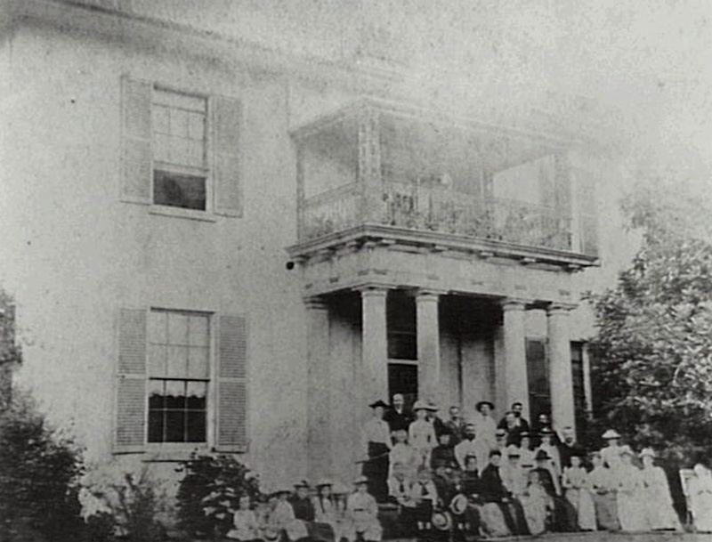 Wivenhoe, Camden, New South Wales circa 1900